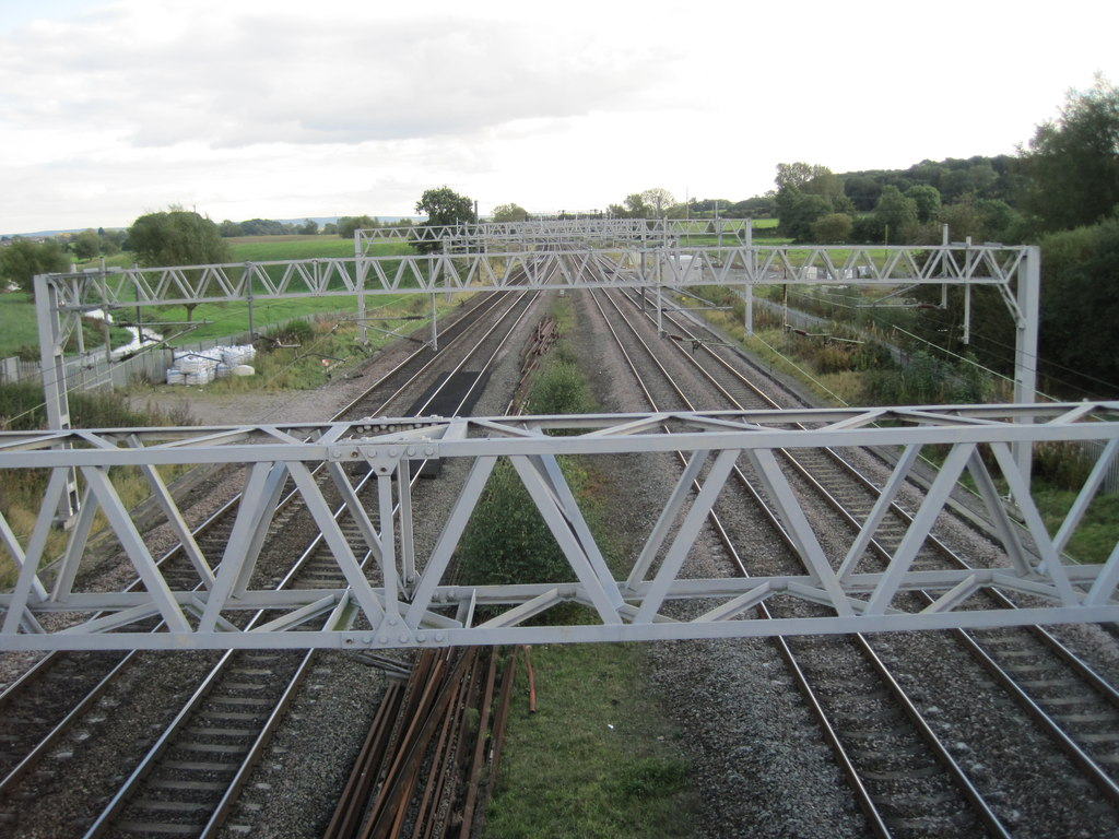 Great Bridgeford railway station (site)Opened in 1837 by the Grand Junction Railway on the line from Stafford to Crewe, this station closed to passengers in 1949 and completely in 1959. View south east. Only the widening between the tracks gives a clue. From old maps, there appear to have been four platforms.